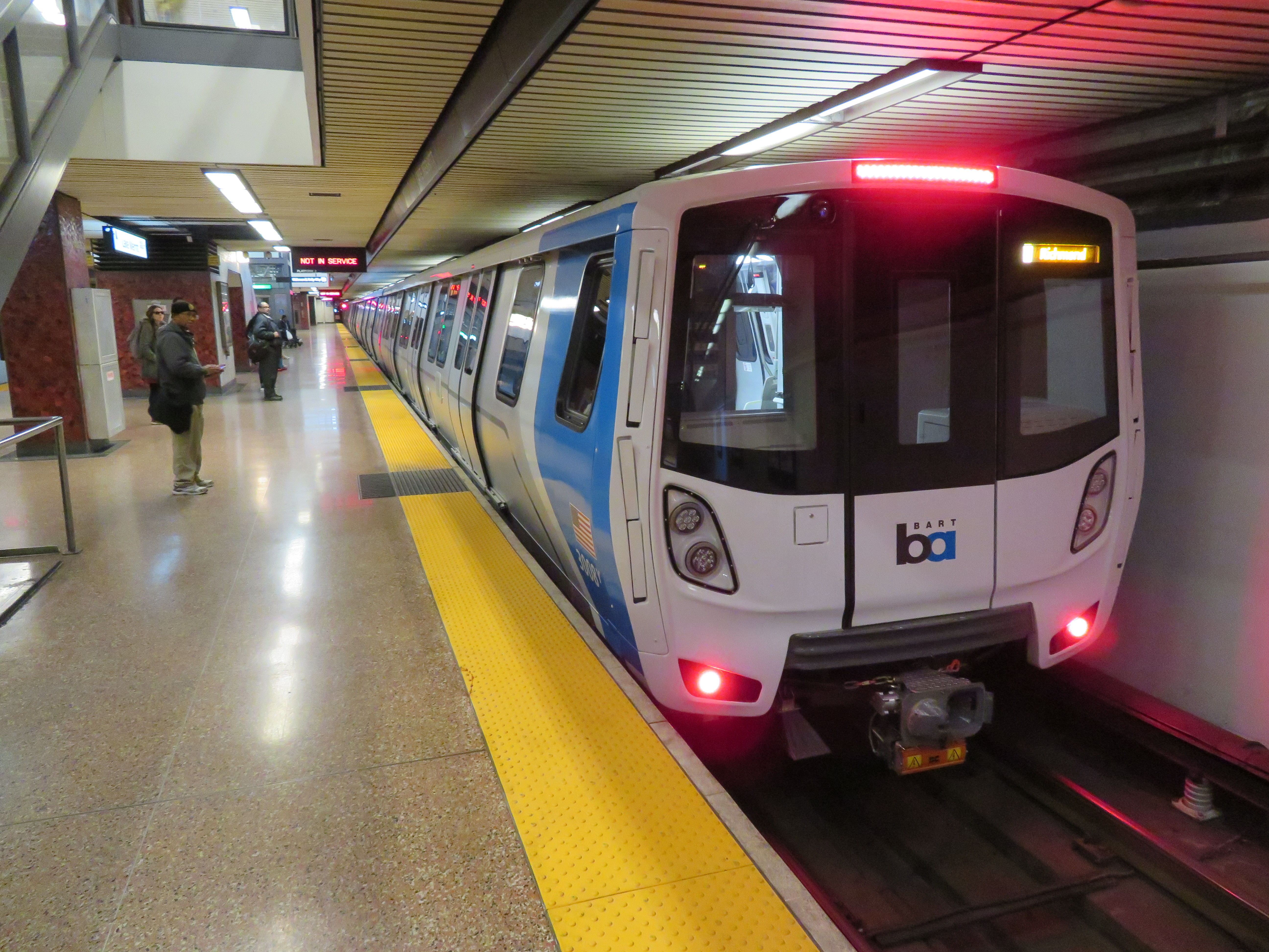 New BART train under testing at lLake Merritt station in March 2018